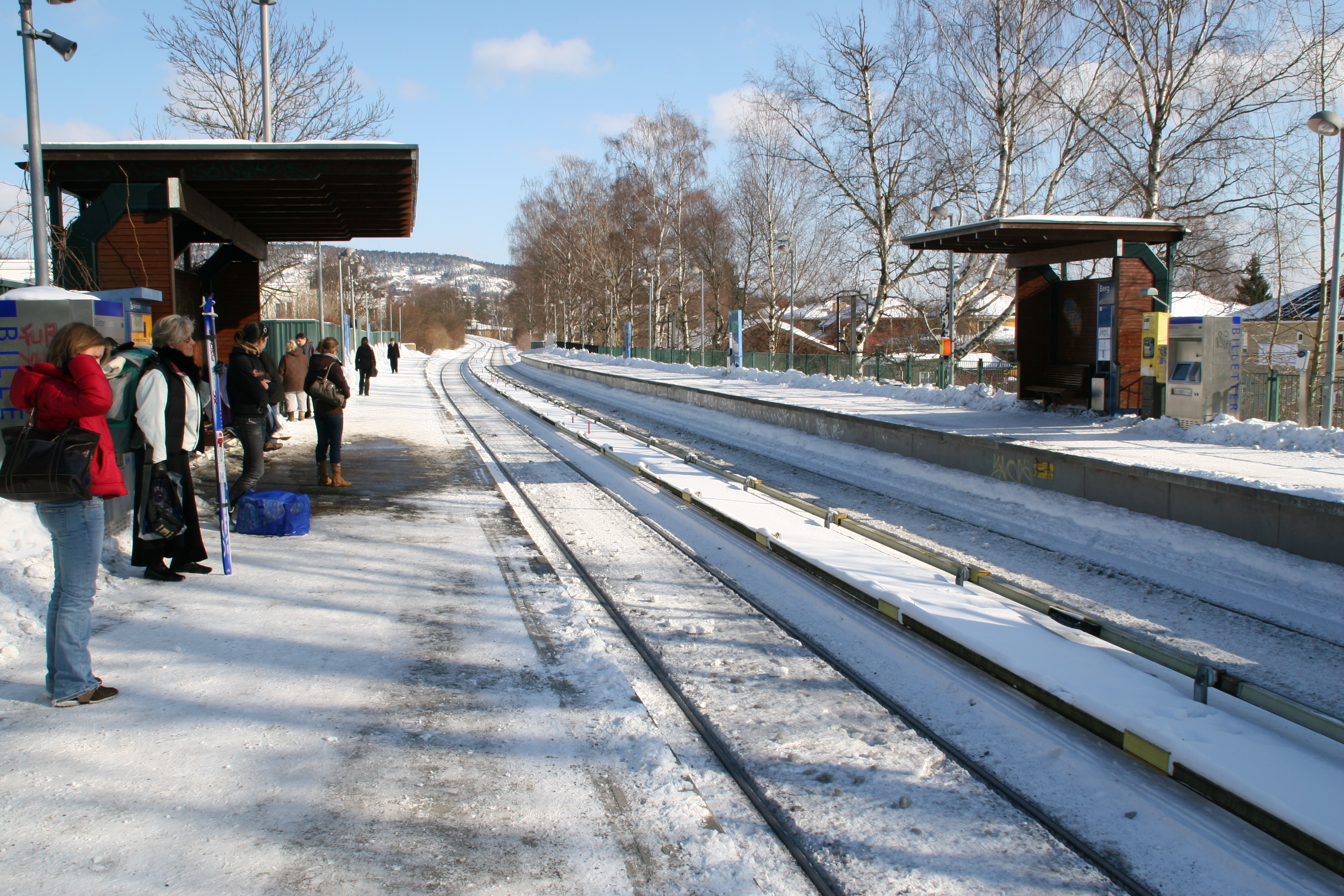 The Berg subway station in Oslo, Norway. Date: 2006-03-10. Photographer: eao.